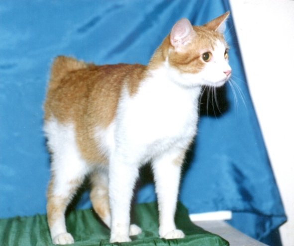 Japanese Bobtail